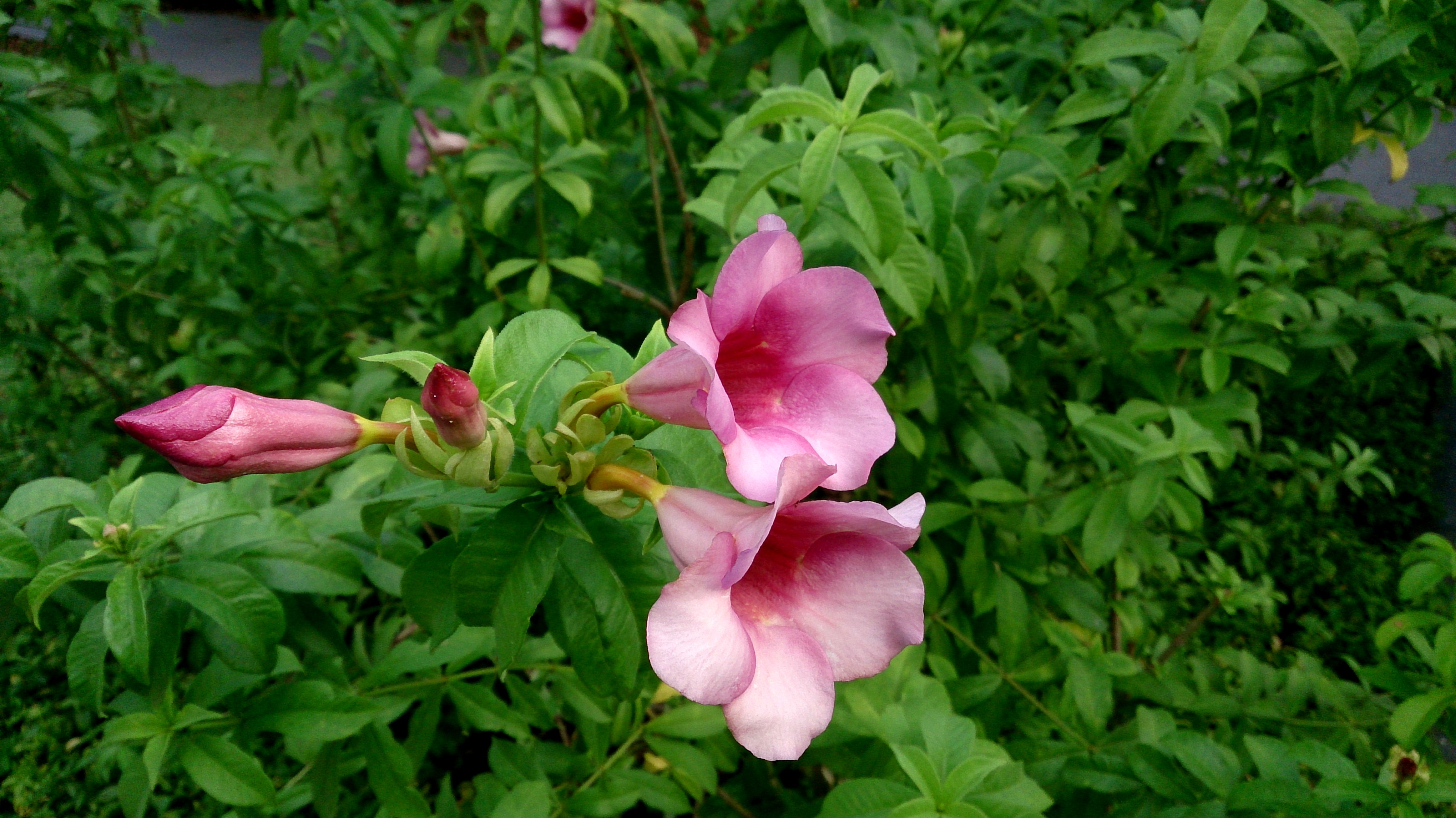 Allamanda blanchetii. Common name: Purple Allamanda.